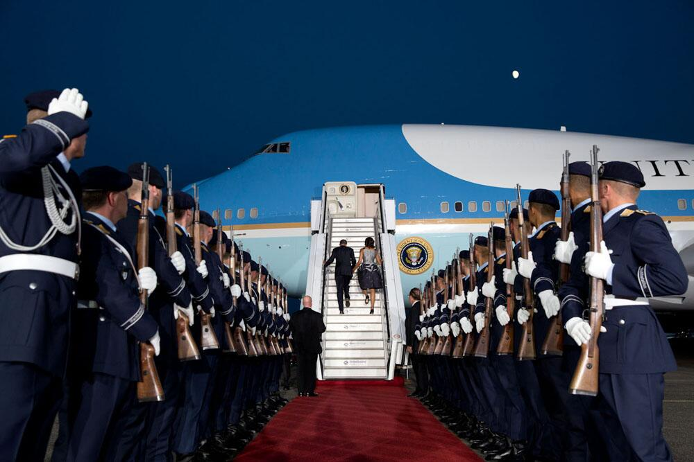 United States President Barack and Michelle Obama board Air Force One in moonlight at the end of their visit to Germany on 19 June 2013.